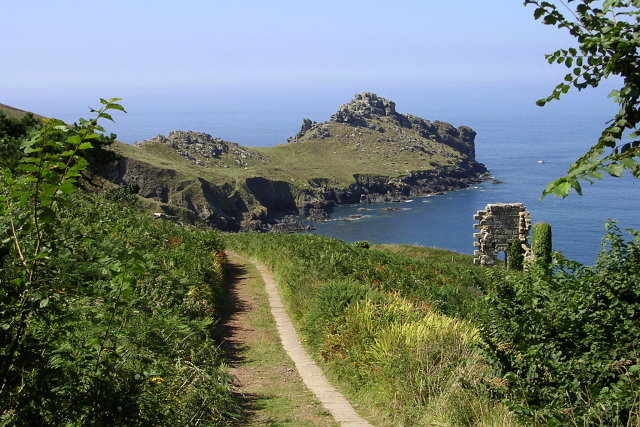 View towards Gurnard's Head This path zig-zags down to Lean Point. The headland in the distance is Gurnard's Head, home of the Trereen Dinas cliff castle. Part of a ruined engine house can be seen on the right.